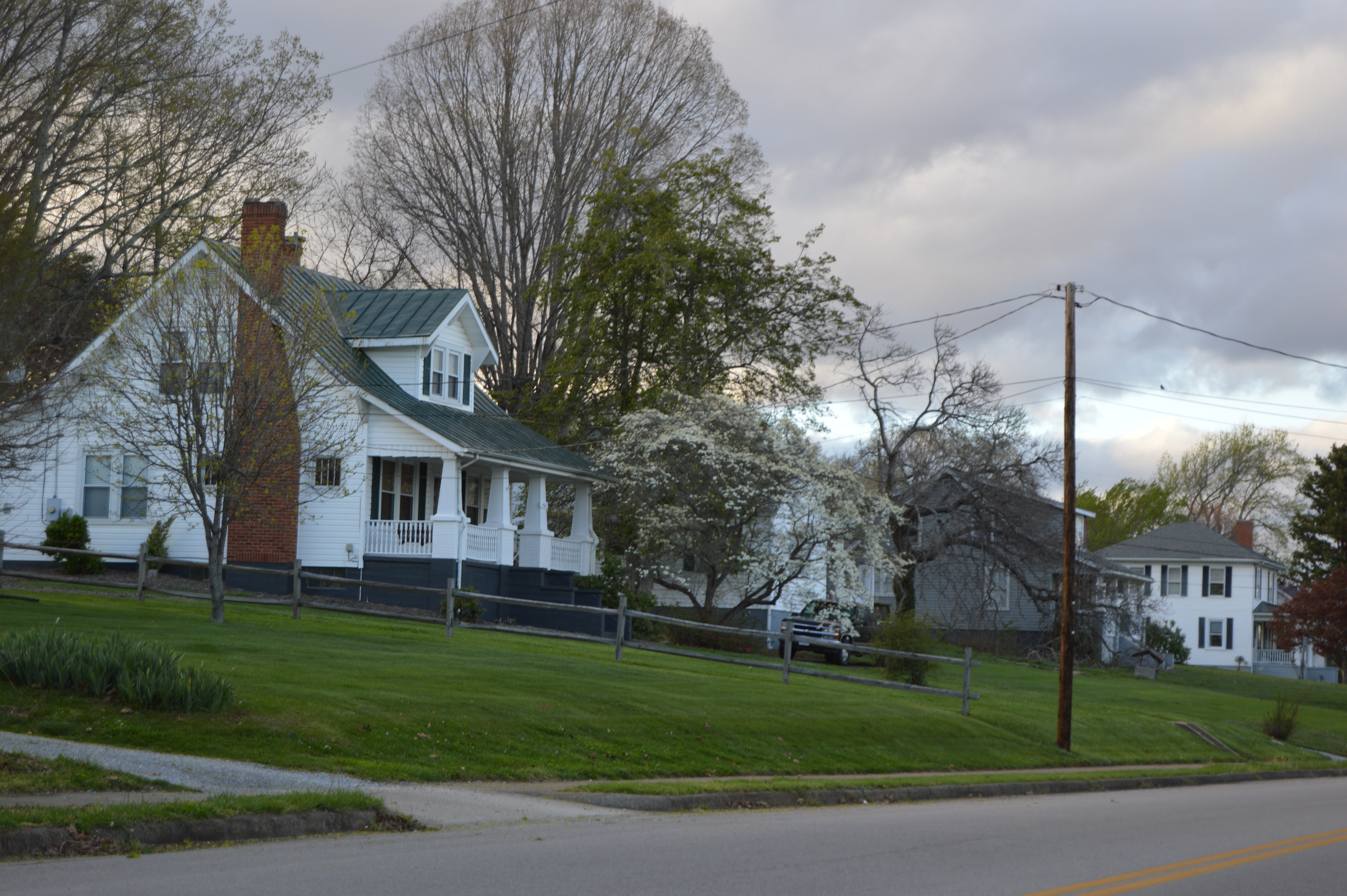 Houses on the western side of Prospect Road, just north of the Tanyard Road intersection, in Hurt, Virginia, United States.